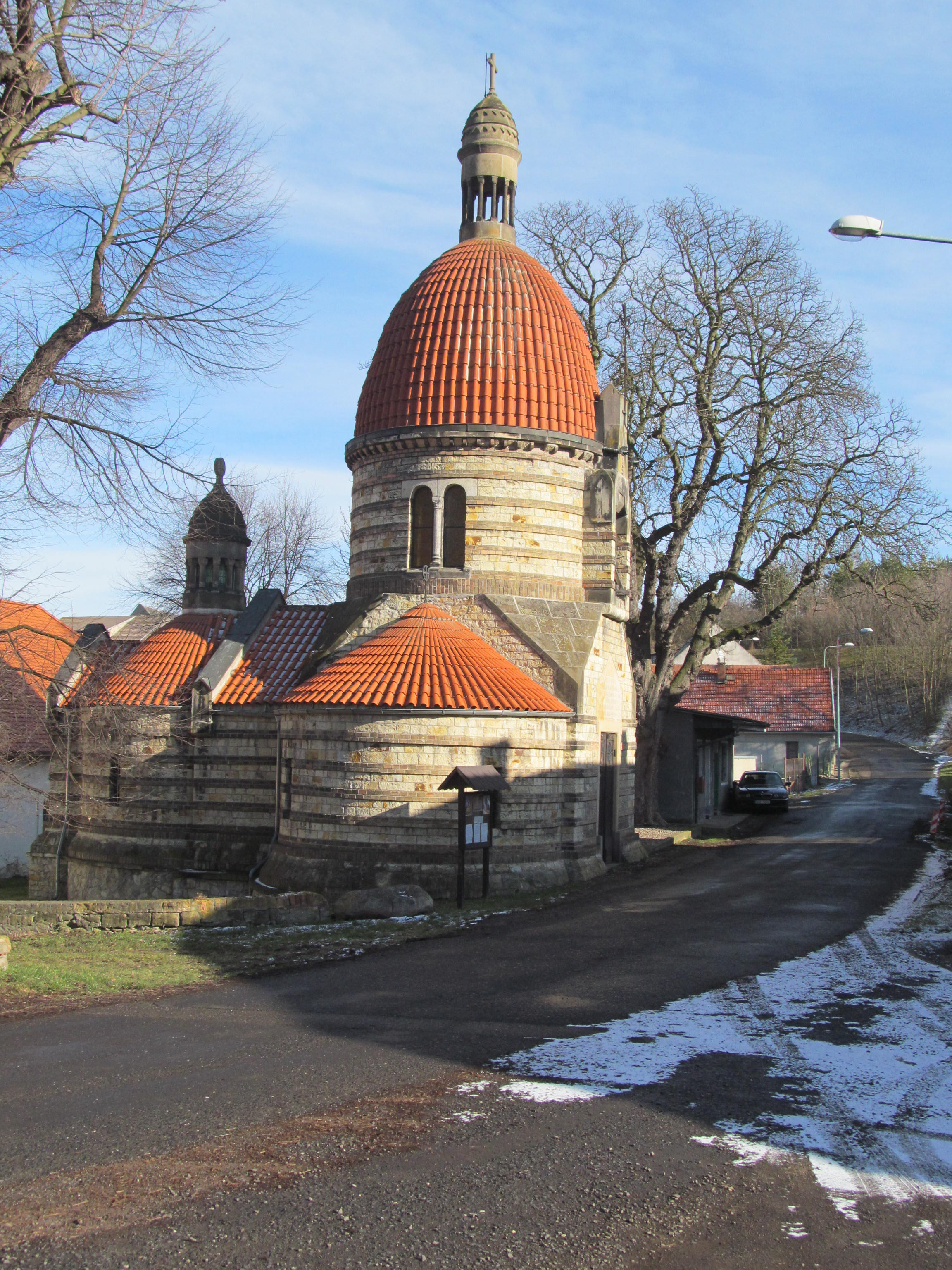 Chapel of Saint Wenceslaus from 1893 in Vlčí, projected by Eduard Sochor